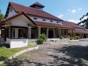 Museum Sultan Sulaiman Badrul Alamsyah in Kota Tanjung Pinang, Kepulauan Riau 35132, Indonesië